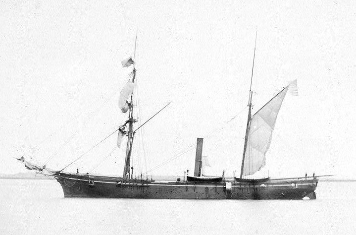 USS Pocahontas (built 1852). Photo apparently taken at or near Edisto Island, South Carolina, c. 1862-3.